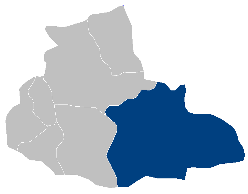 Location map for the Jawand District of Badghis Province, Afghanistan. Original map source: Image:Badghis districts.png